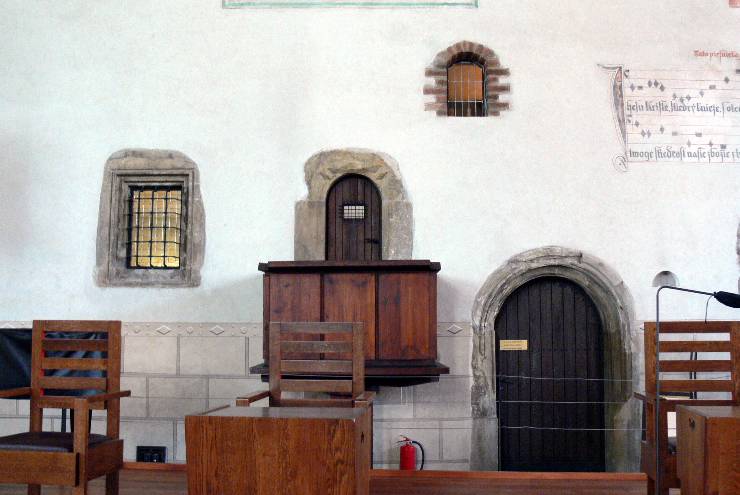 Bethlehem chapel ( Prague ). Eastern wall ( 14th century ) with pulpit.